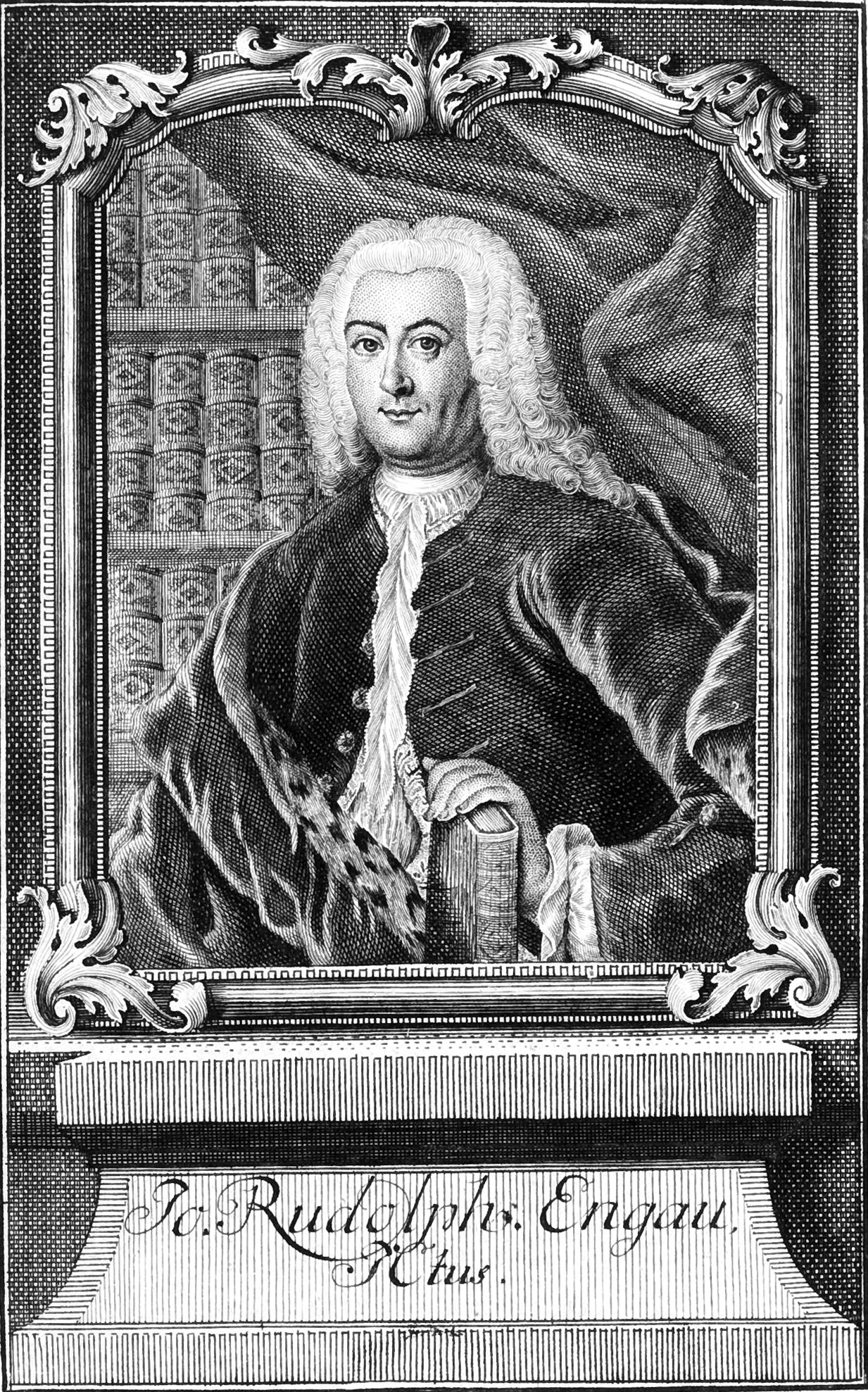 Johann Rudolph Engau (1708-1755) german legal scholar